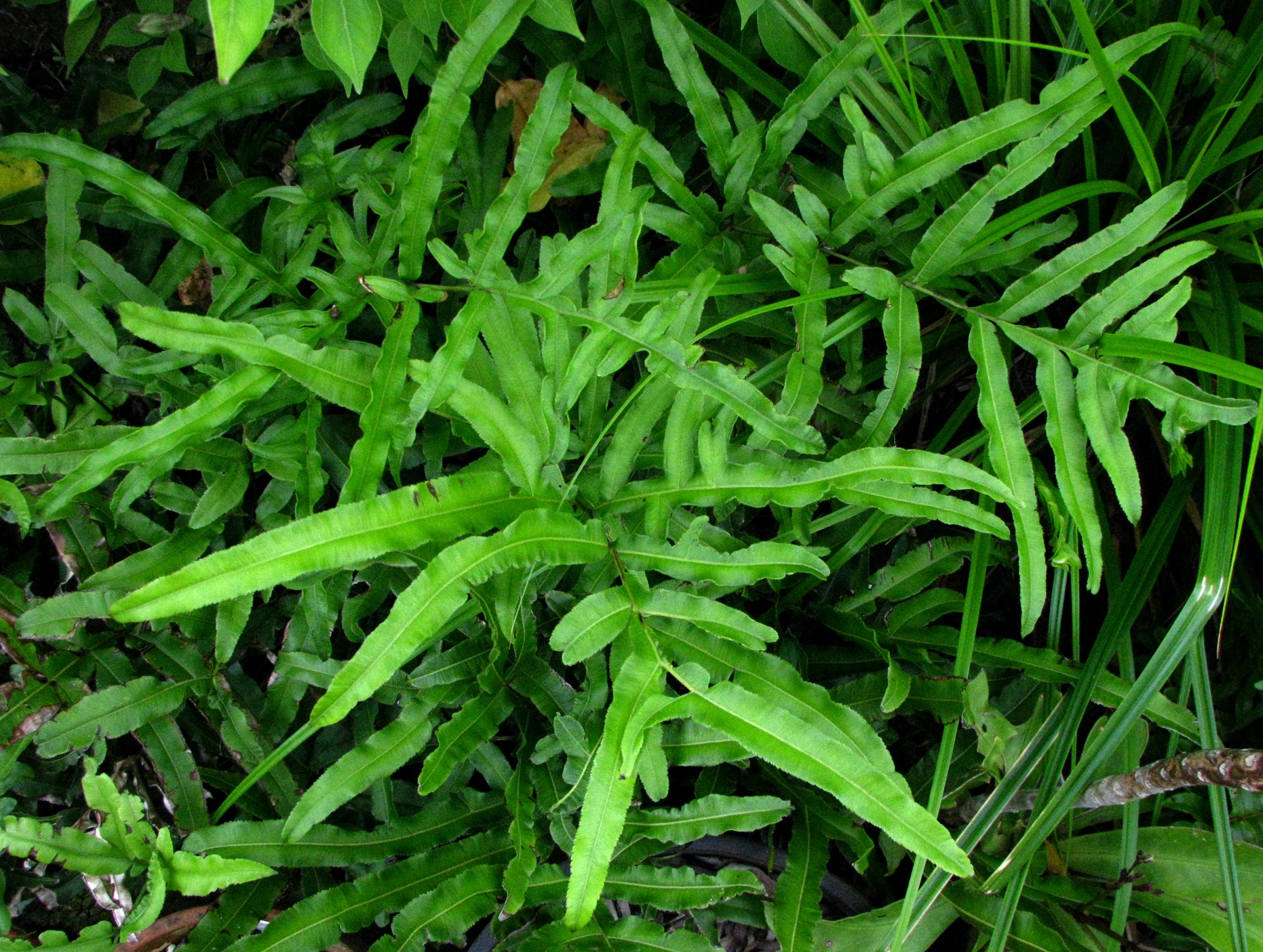 Hillebrand's brake fern (Apparently no known Hawaiian name) [syn. Pteris cretica var. decurrens, Pteris irregularis var. linearis] Dennstaedtiaceae Endemic to the Hawaiian Islands Uncommon Oʻahu (Cultivated); Spores originally collected from the Waiʻanae Mts., Oʻahu D. Palmer (2003) notes that this is a "probable pentaploid hybrid of Pteris cretica and P. irregularis." This species certainly has some of the most unusual foliar features of the native Hawaiian Pteris spp. Pteris cretica is an indigenous species and known by the Hawaiian name ʻŌali. Pteris irregularis is an endemic species known by its Hawaiian names as Māna, ʻĀhewa (on Oʻahu), or ʻIwa puakea (on Maui).